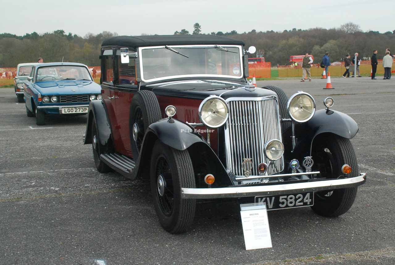 Pre WWII Classic Car